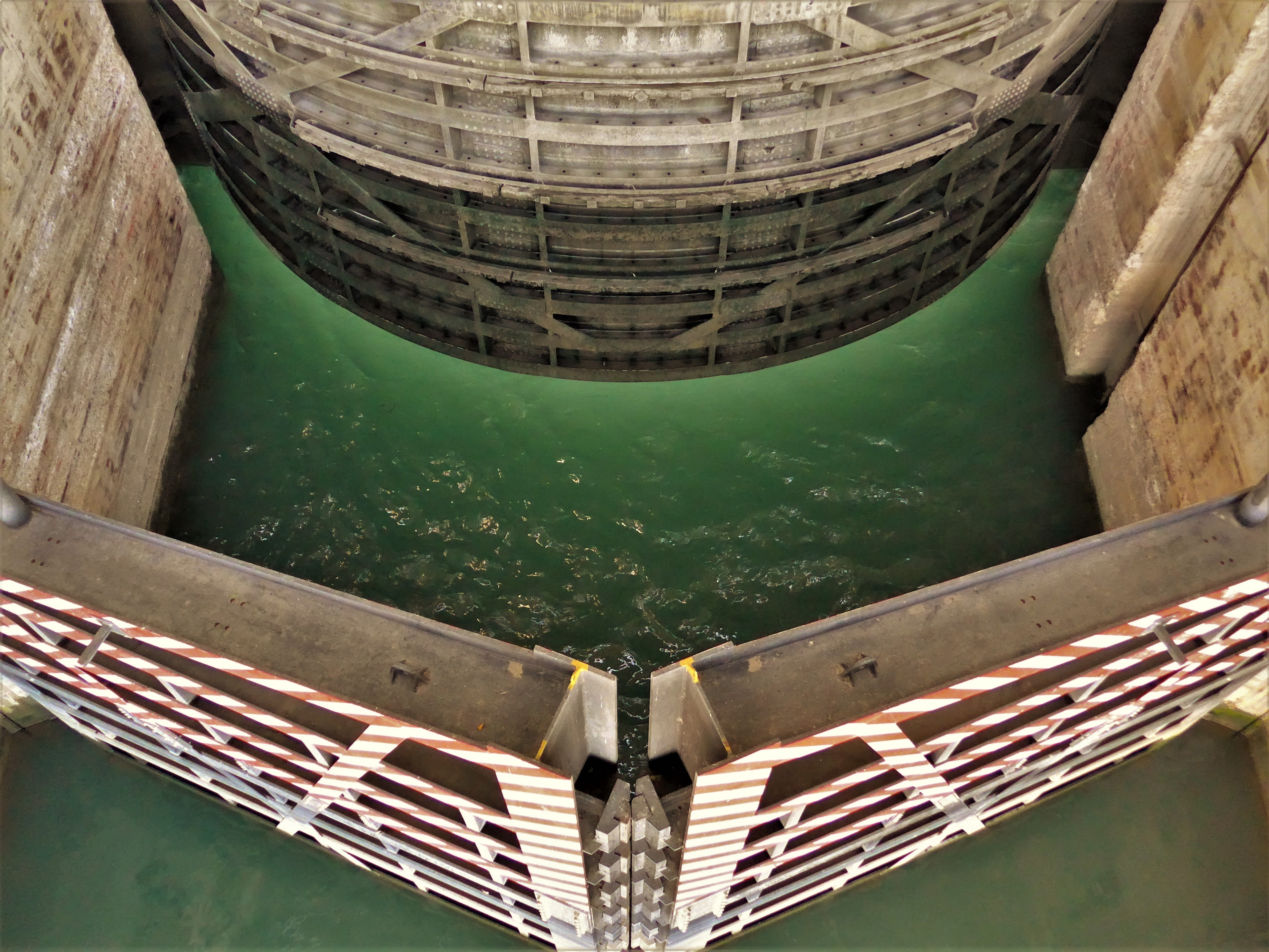 Hydropower power plant dam on the Rhône canal, Châteauneuf du Rhône, Drôme, France